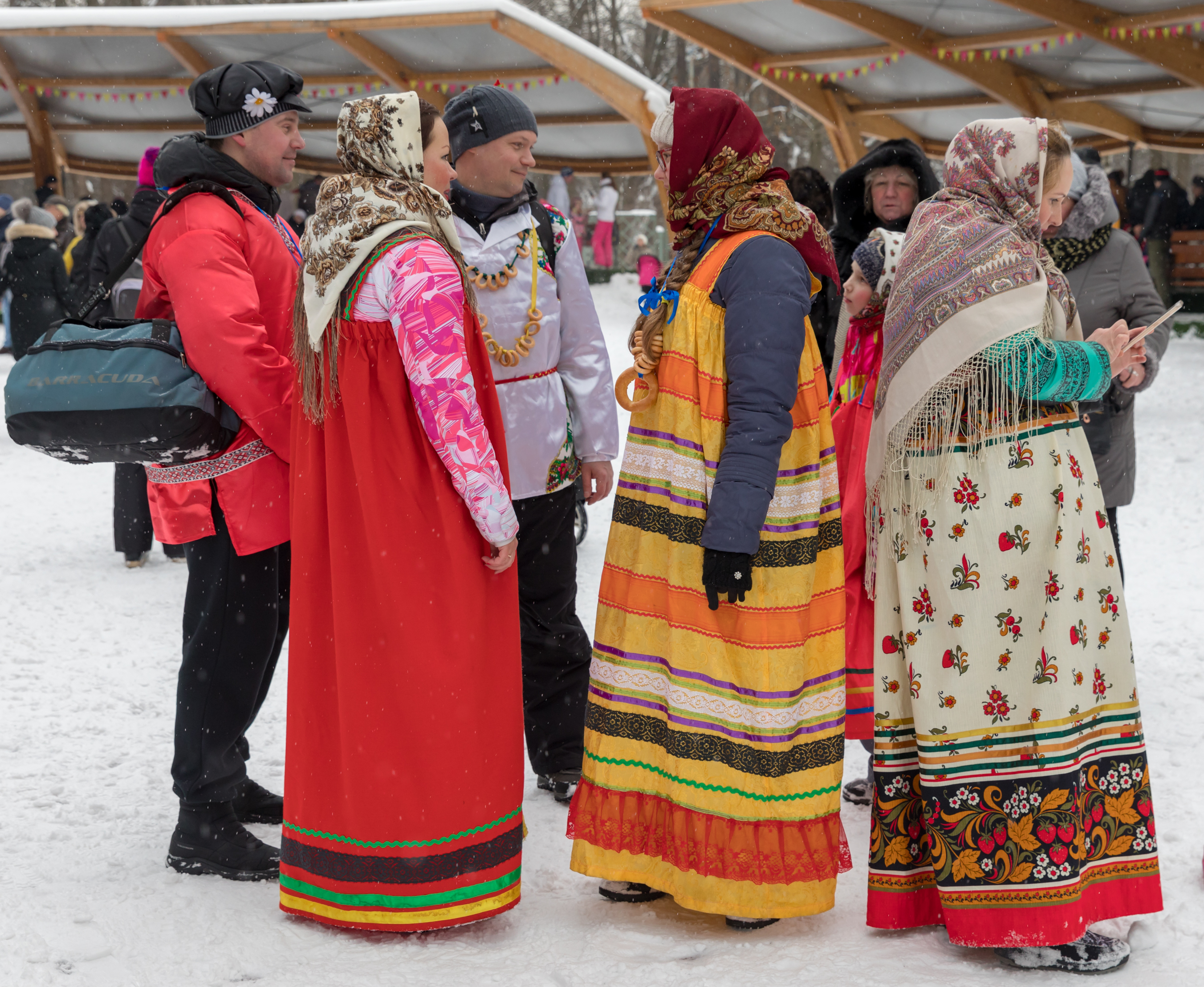 Maslenitsa in Krestovsky Island, Petersburg, Russia